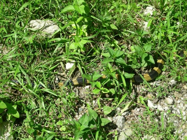 Banded Krait Bungarus fasciatus Daudin 1803 Photo of Banded Krait captured in Binnaguri, North Bengal, India on 19 Sep 2006.